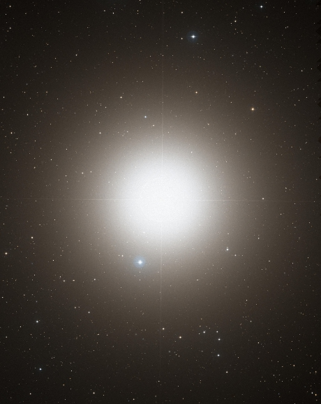 Optical image of Arcturus provided via the Mikulski Archive for Space Telescopes (MAST), STScI, and NASA.